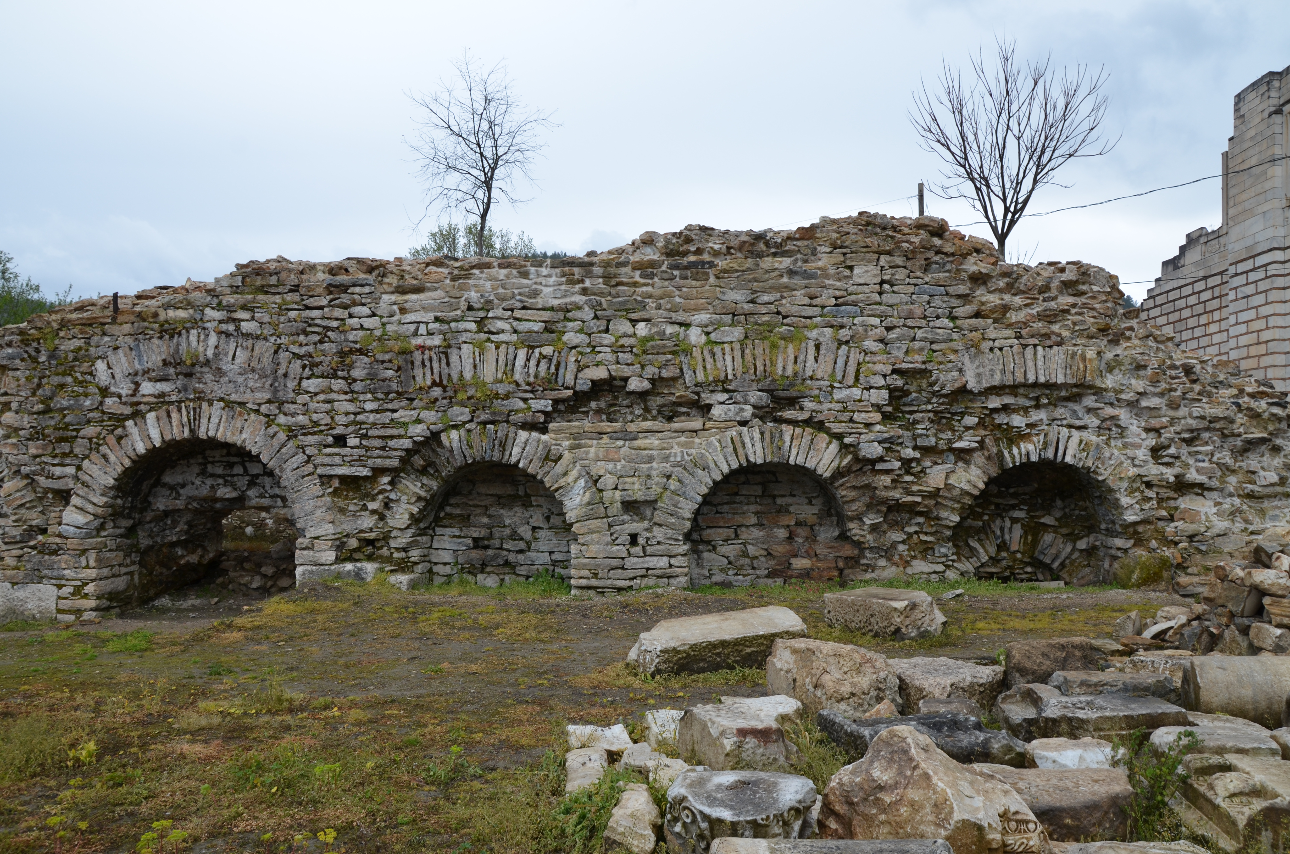 Stratonicea Caria, Turkey